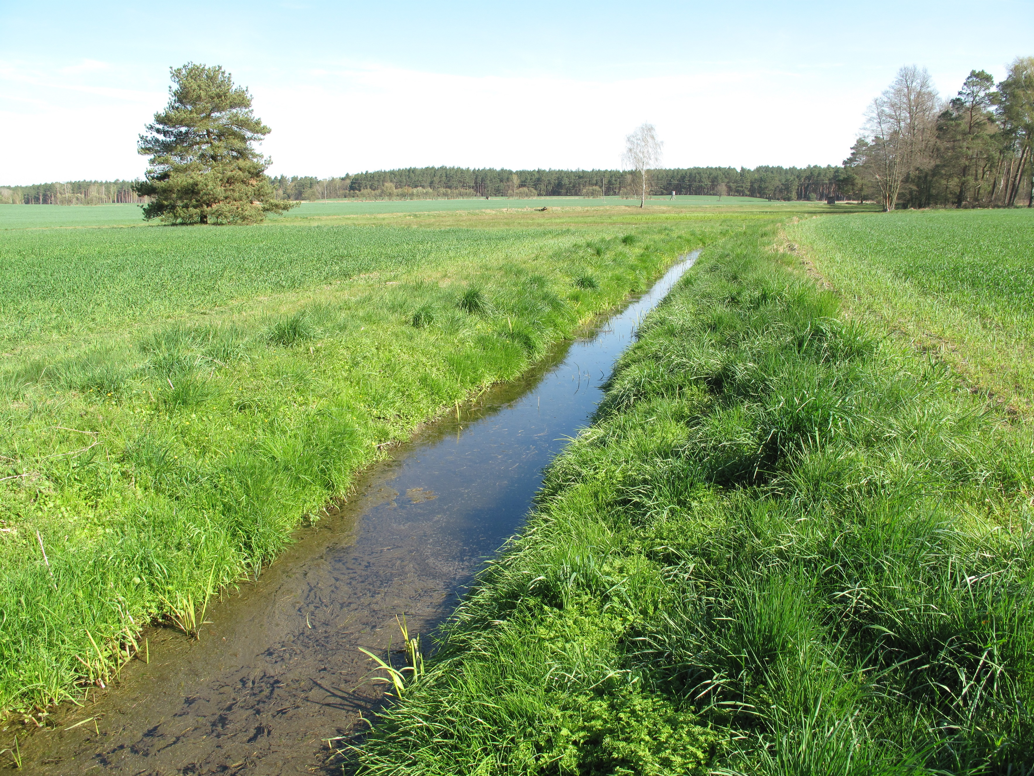 Schwenowseegraben (stream) on the border between Limsdorf, a part (german: Ortsteil) of the town Storkow, and Ahrensdorf, a part of the municipality Rietz-Neuendorf, in the District Oder-Spree, Brandenburg, Germany.